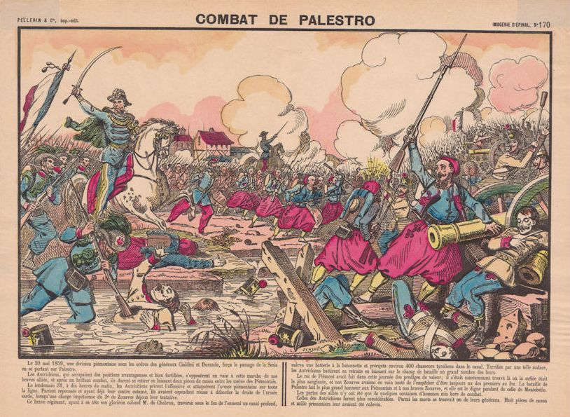 King of Sardinia Victor Emmanuel II at battle of Palestro (1859)